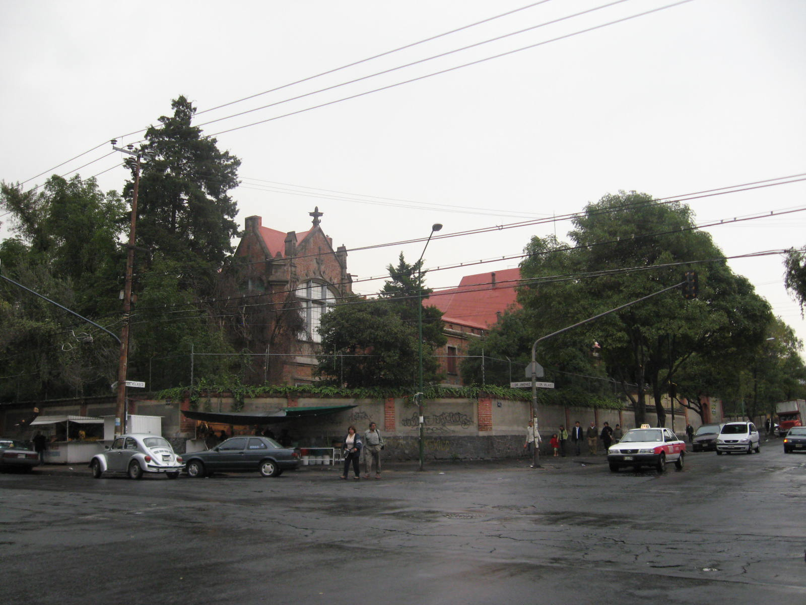 View of "Instituto Maria Isabel Dondé" school from Dr Velasco and Dr Jimenez streets in Colonia Doctores in Mexico City